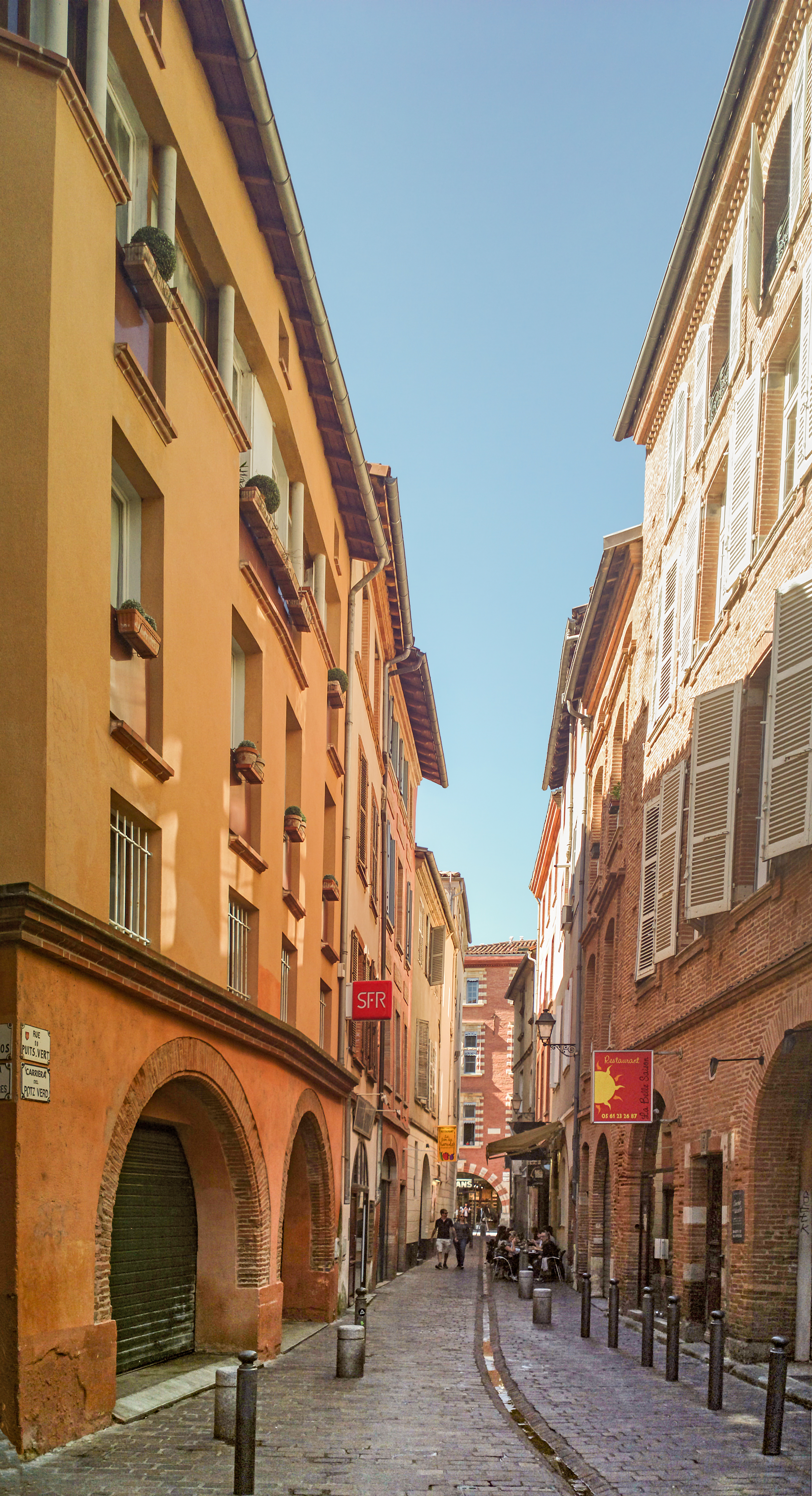 Rue du Puits-Vert, in Toulouse - View of the crossing of therue des puits clos towards rue saint Rome.